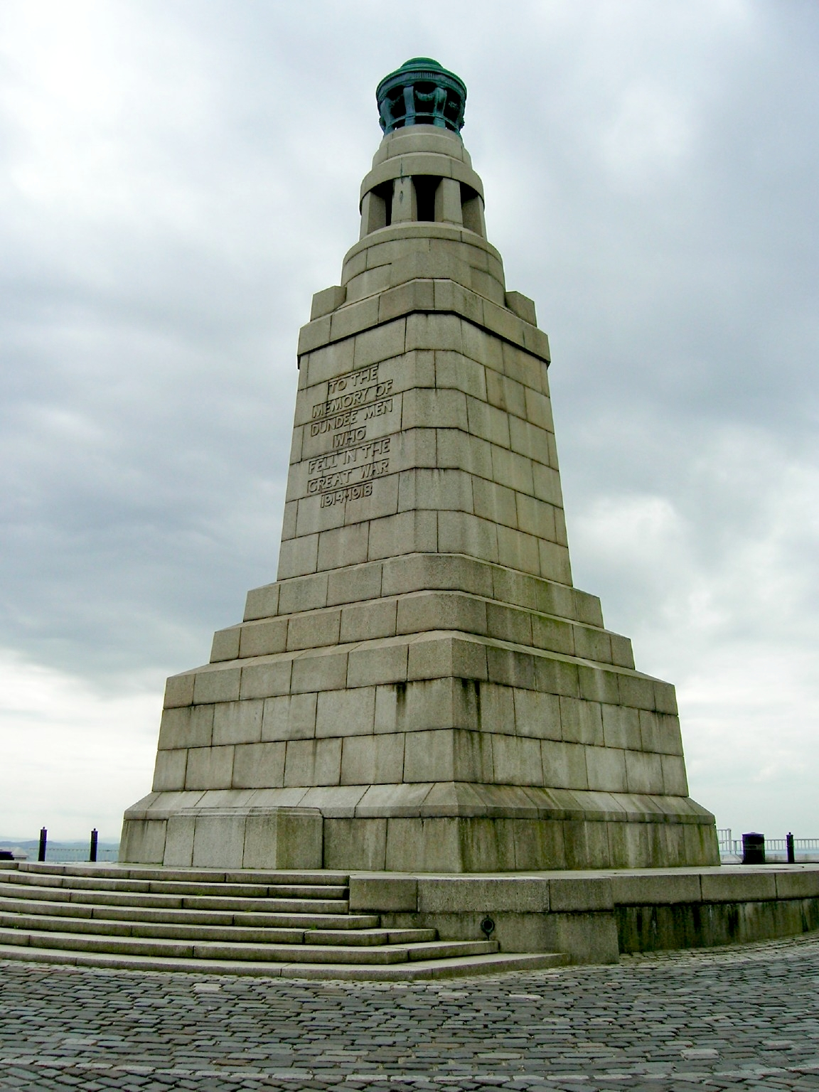 War Memorial on the Summit of Dundee Law